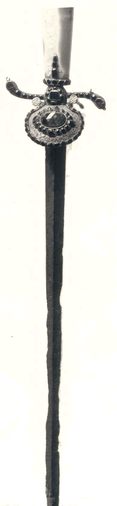 Photograph